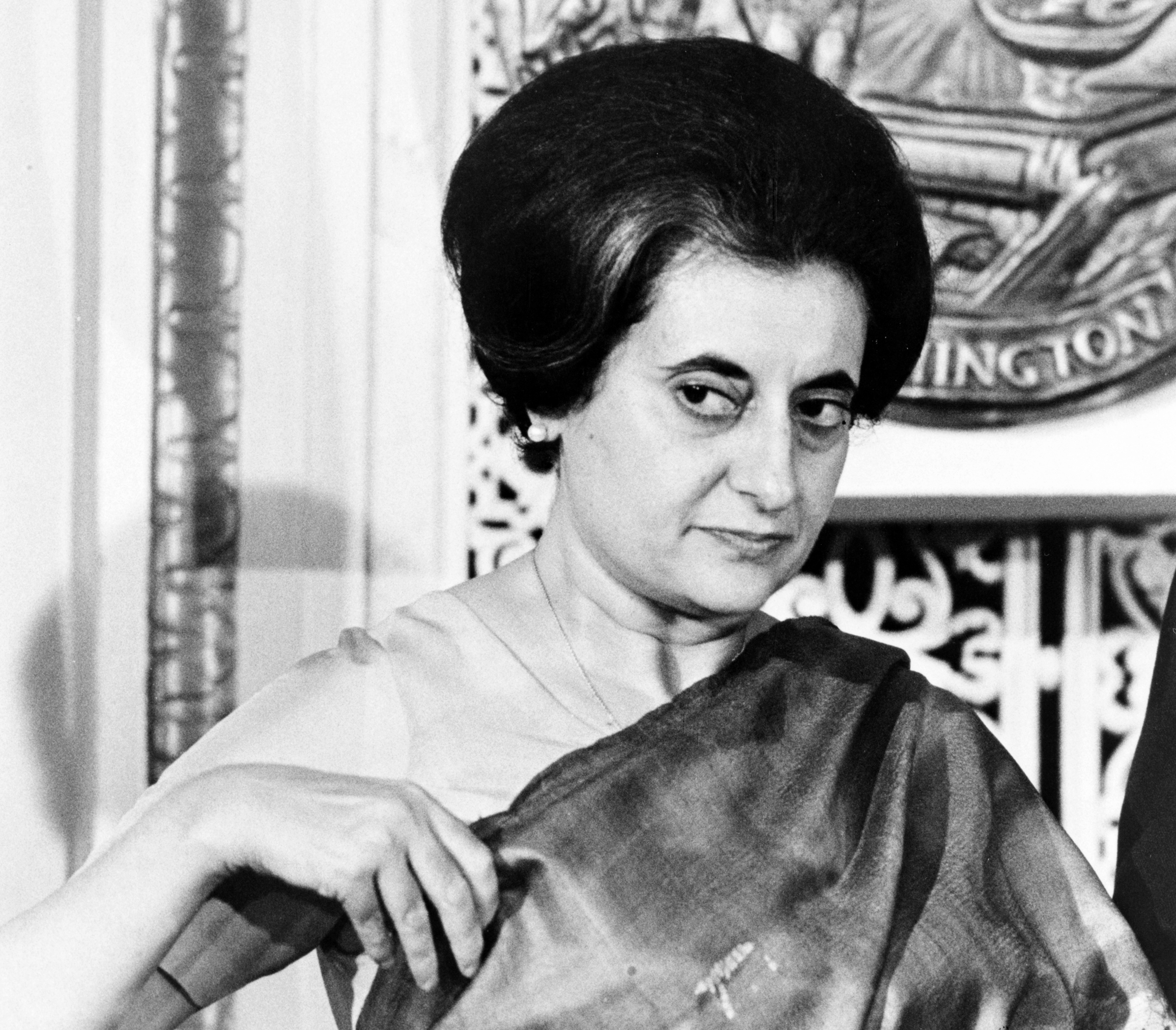 Indian Prime Minister Indira Gandhi (1917-1984) at the National Press Club, Washington, D.C. 1n 1966